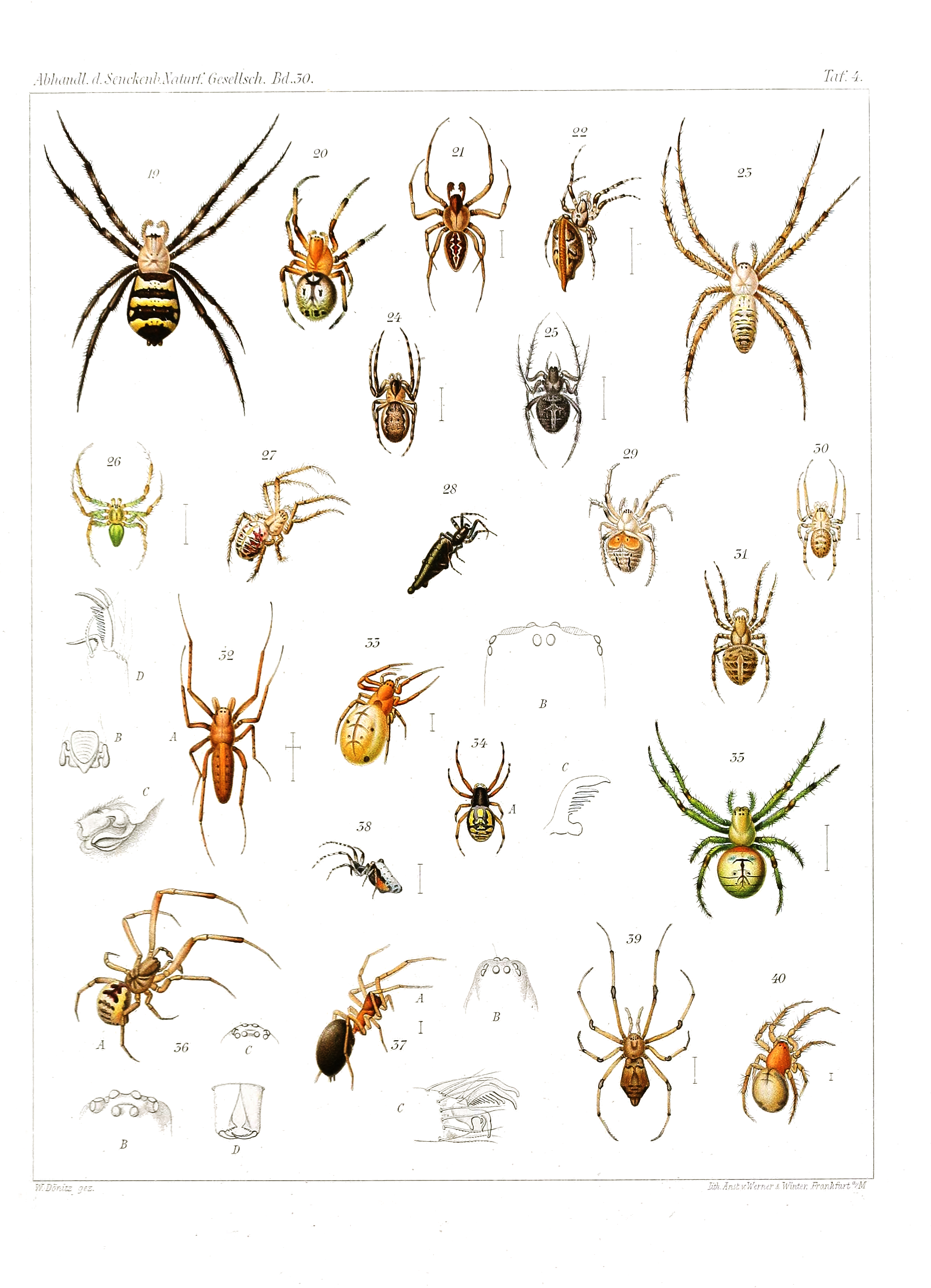 Japanese spiders collected by Prof. Dr. Wilhelm Dönitz (1838-1912)in Japan. 19 Argiope amoena 20 Aranea mitifica 21 Aranea mangarevoides 22 Cyclosa insulana 23 Argiope brunnichii 24 Aranea sia 25 Aranea scylooides 27 Aranea adianta japonica 28 Cyclosa atrata 29 Aranea fuscocolorata 30 Aranea herbeoides 31 Aranea nautica 32 Larinia punctifera 33 Aranea theridiformis 34 Lithyphantes? dubius 35 Aranea pentagrammica 36 Enoplognatha foliicola 37 Erigone sagicola 38 Cyclosa argenteoalba 39 Episinus caudifer 40 Aranea? Doentizella